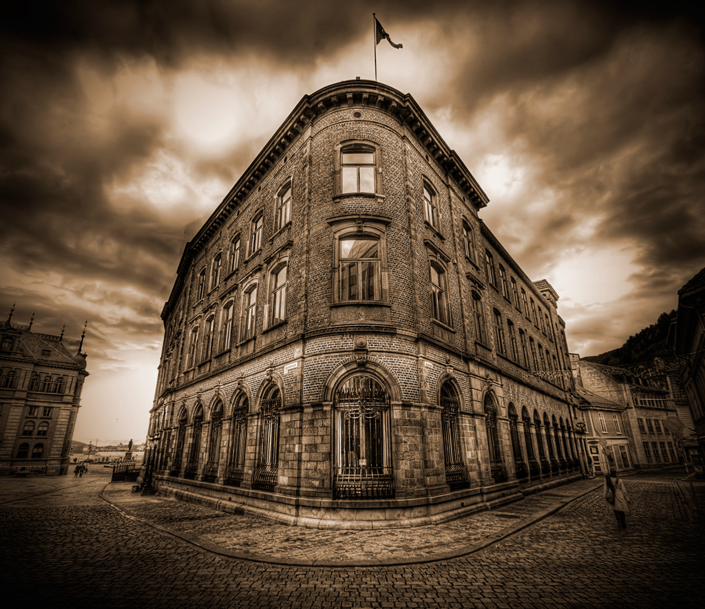 The following is the author's description of the photograph quoted directly from the photograph's Flickr page. "View On Black Below is a version with colors,not sure which one is the better? "